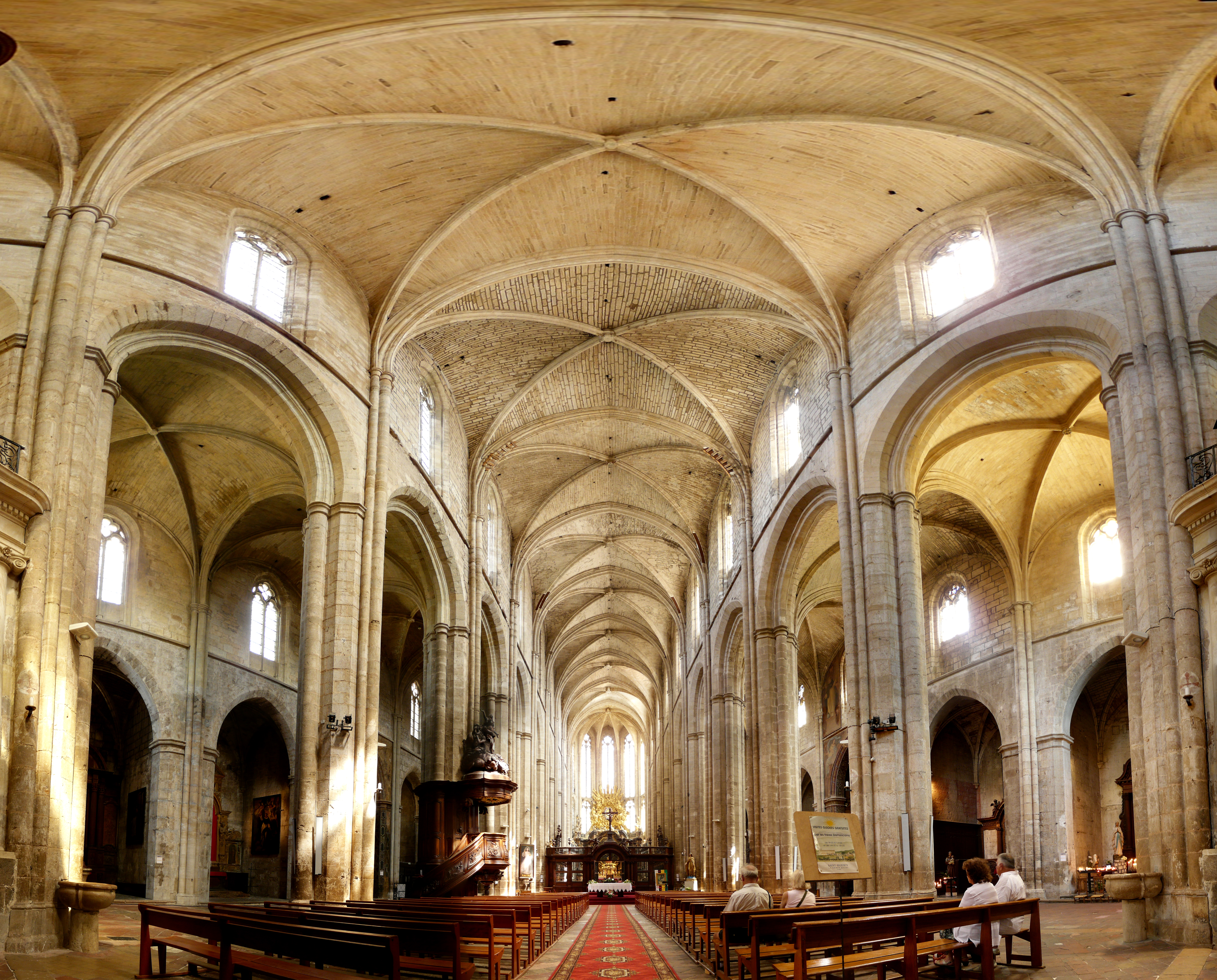 The interior of the Basilique of St Maximim la Sainte Baume, France.